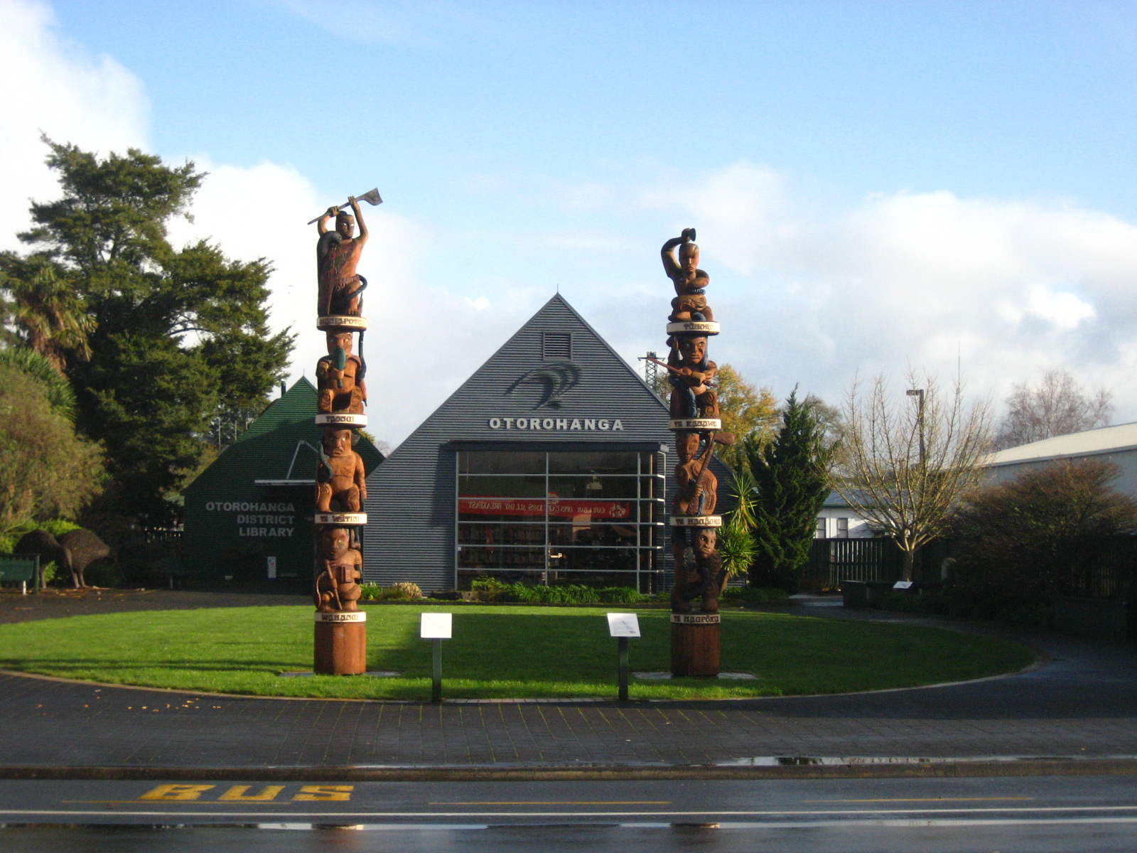 Otorohanga, New Zealand